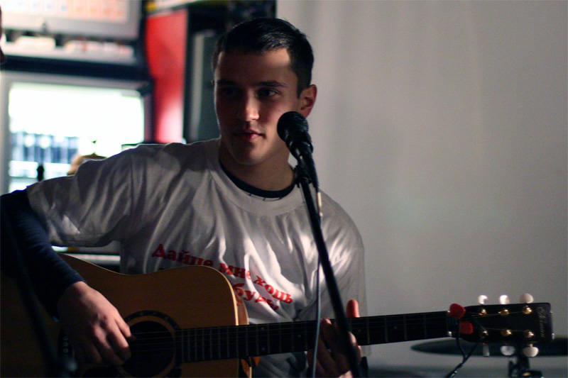 Jaŭhien Vałošyn